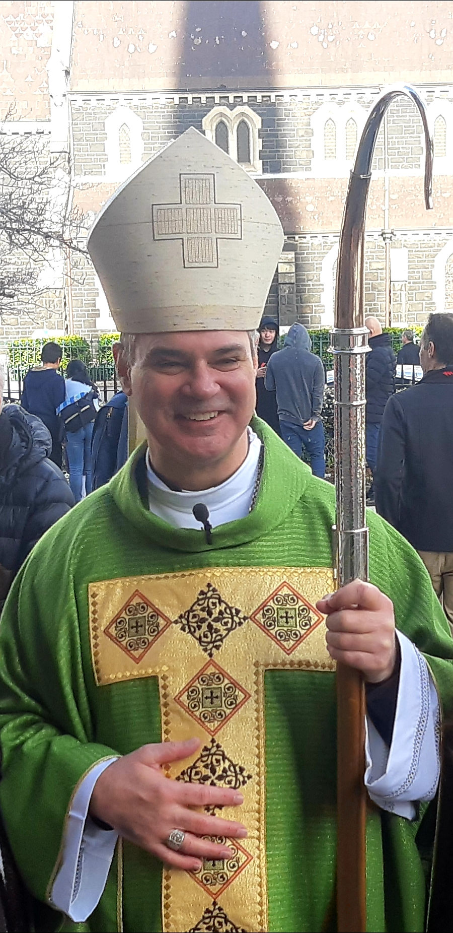 Archbishop Peter Comensoli of Melbourne